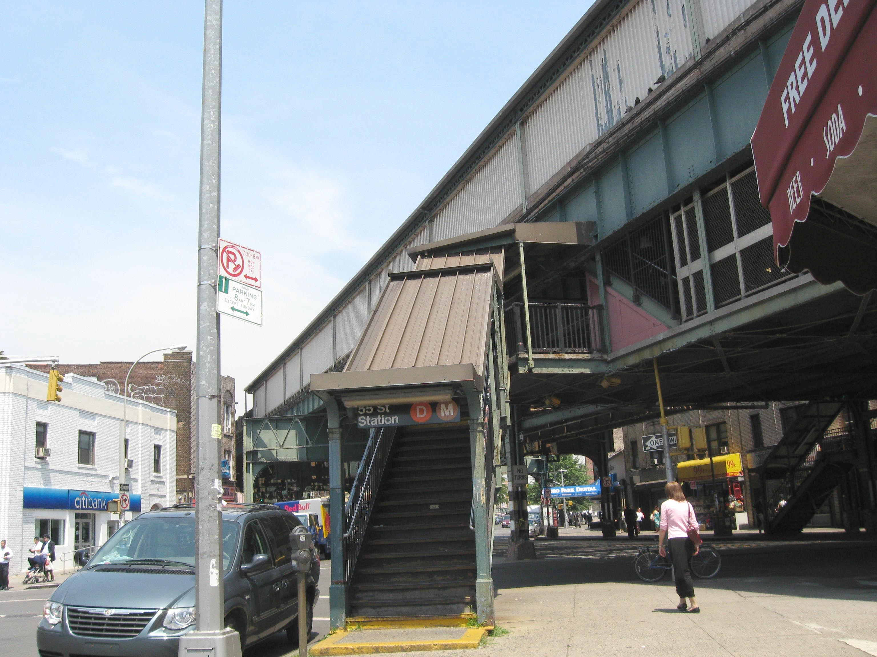 Looking north at en:55th Street (BMT West End Line) on a sunny midday